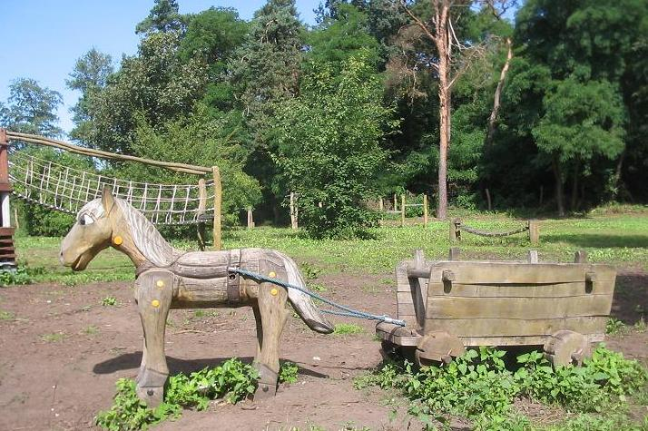 Playground at Schildhorn. Schildhorn (german for: shieldhorn) is a headland in the river Havel, situated in the protected area Grunewald in the homonymous quarter Grunewald of Berlins borough Charlottenburg-Wilmersdorf, Germany.